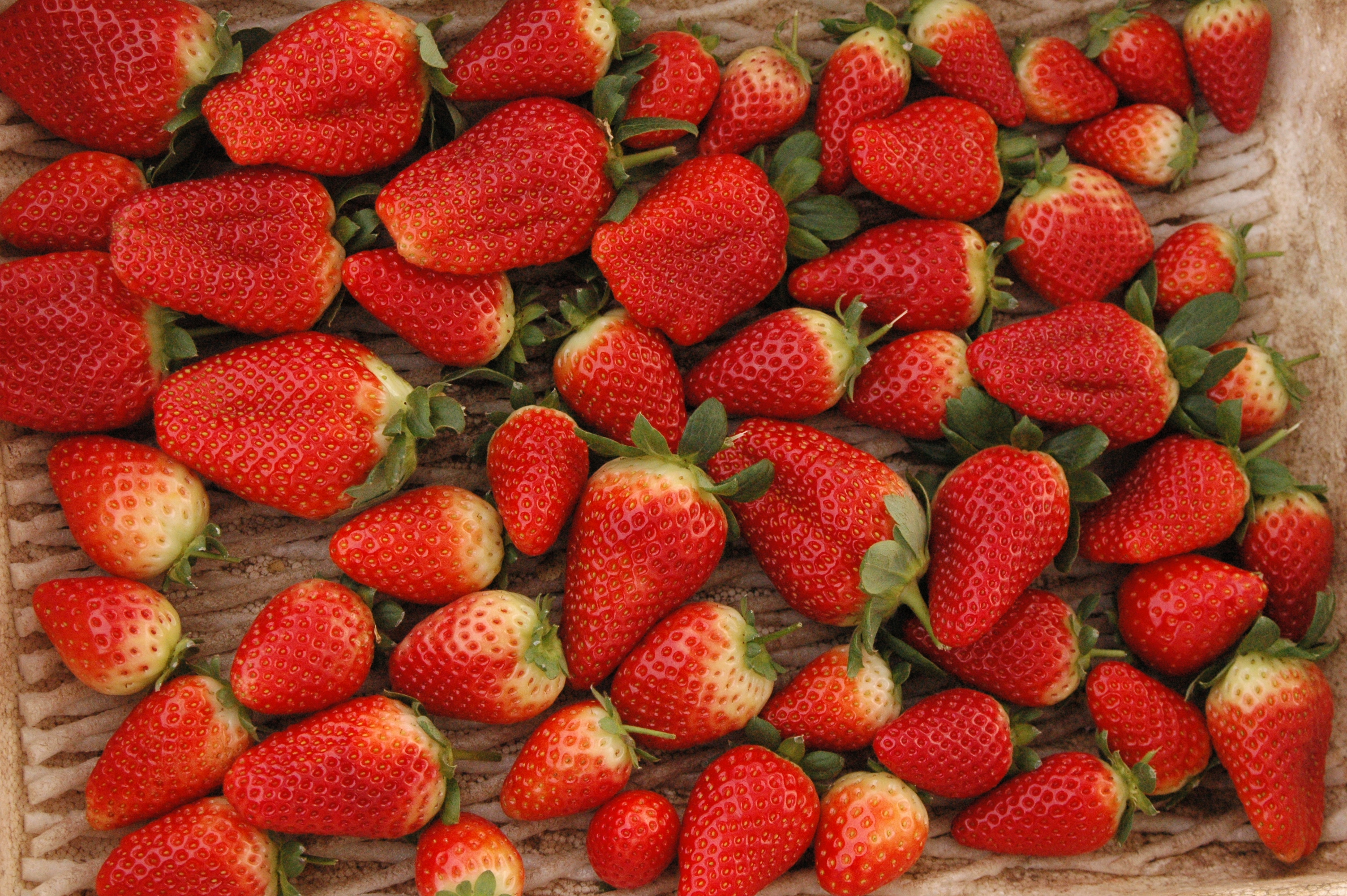 Agriculture in Israel